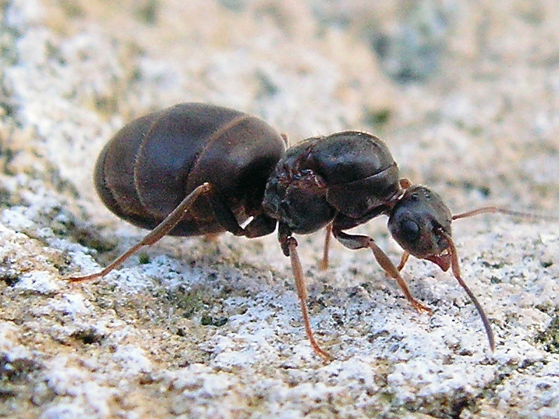 Lasius Niger (queen). Shortly before taking this picture, she tore off her wings. The same individual with wings is to be seen here: Image: Lasius_Niger_winged_queen.jpg